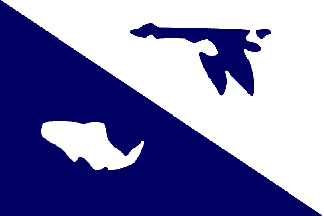 The flag of the United States Fish and Wildlife Service (FWS).